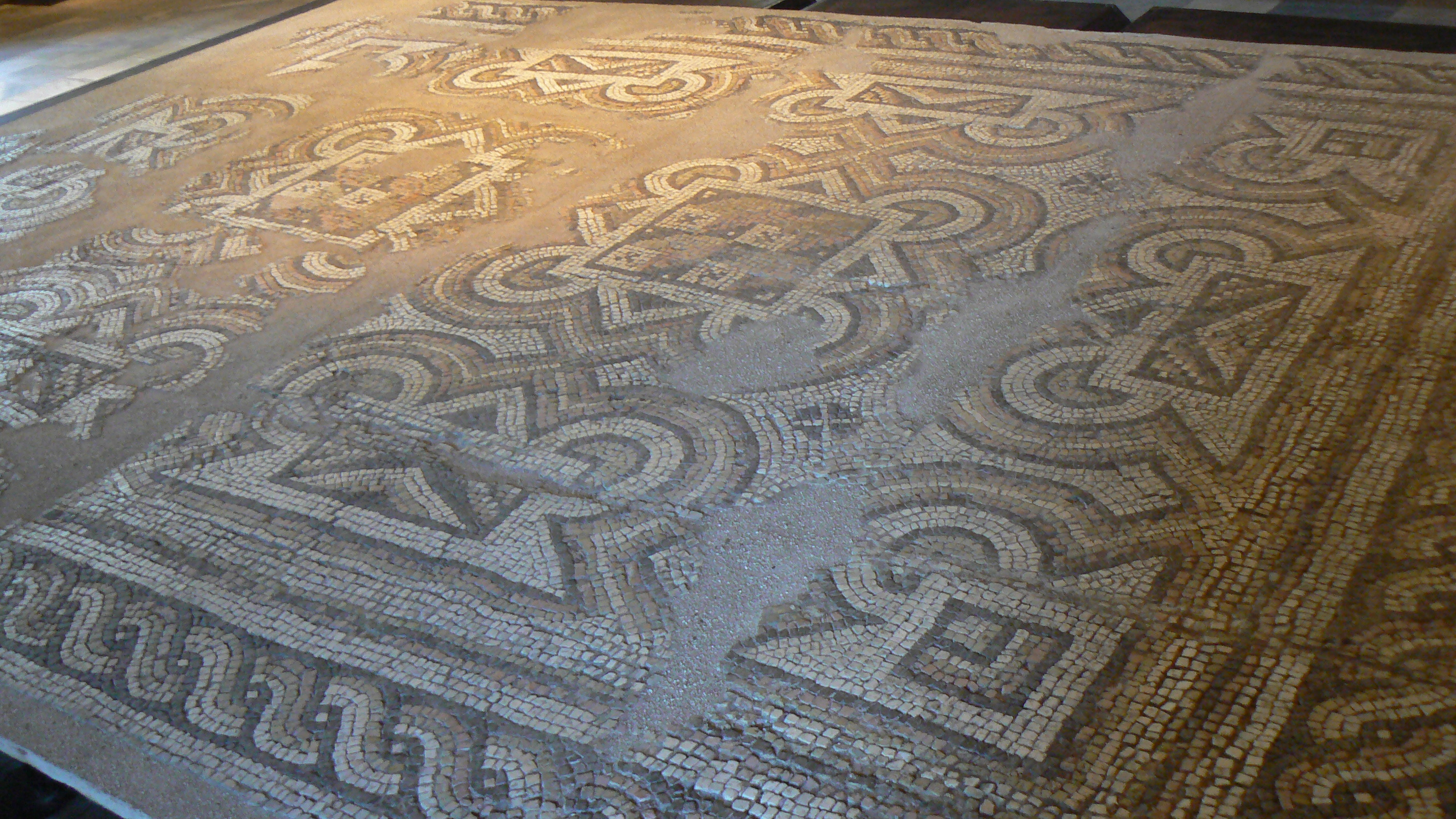 A mosaic with geometrical patterns, exposed in Devnya Museum of Mosaics